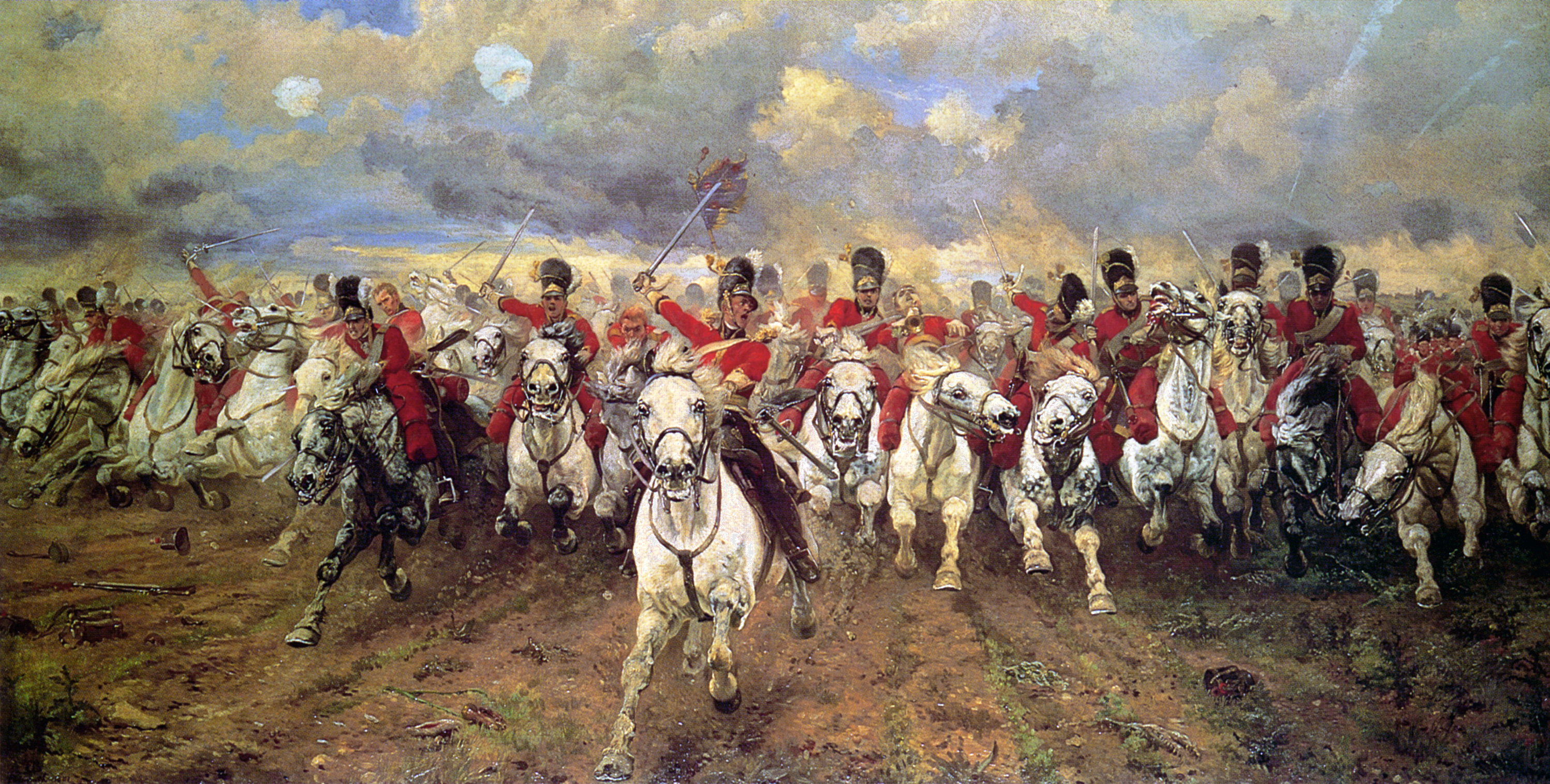 "Scotland Forever!" is an 1881 painting by Lady Butler depicting the start of the cavalry charge of the Royal Scots Greys who charged alongside the British heavy cavalry at the Battle of Waterloo in 1815 during the Napoleonic wars."